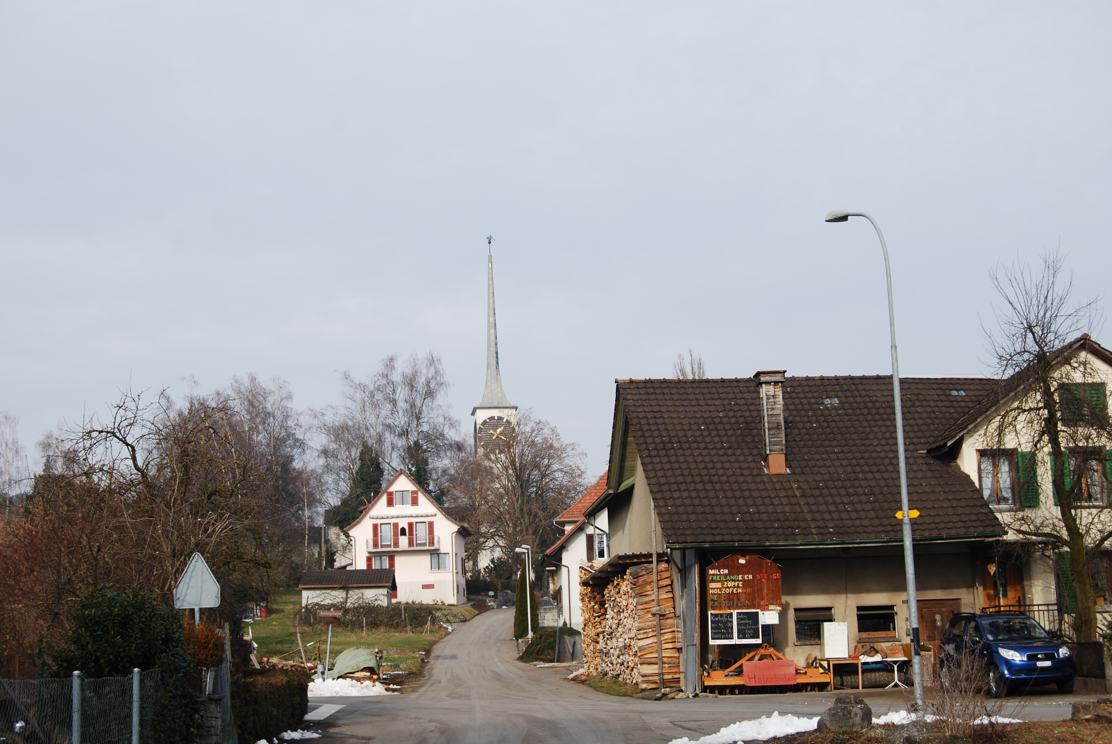 Church of Beinwil ĉe la lago, canton of Aargau, SwitzerlandEsperanto: Preĝejo de Beinwil am See, Kantono Argovio, Svislando